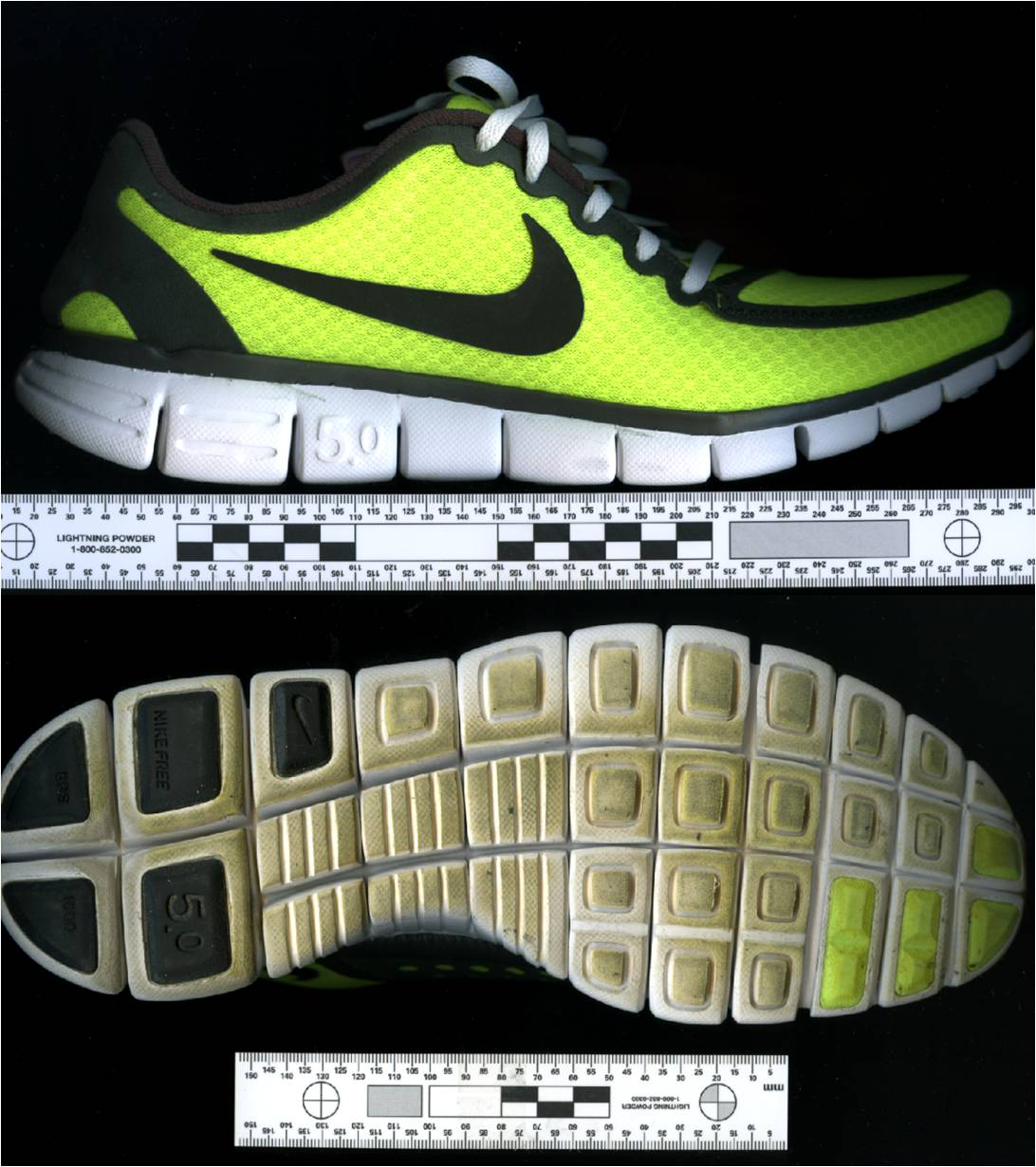 Photo's of a suspect's shoe. The shoes outsole shows many similarities with the shoe print left at the crime scene.